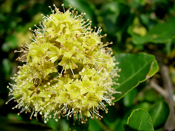 the micro shot of flowers from Lead tree. Kenting National Park. 龜山公園銀合歡的特寫